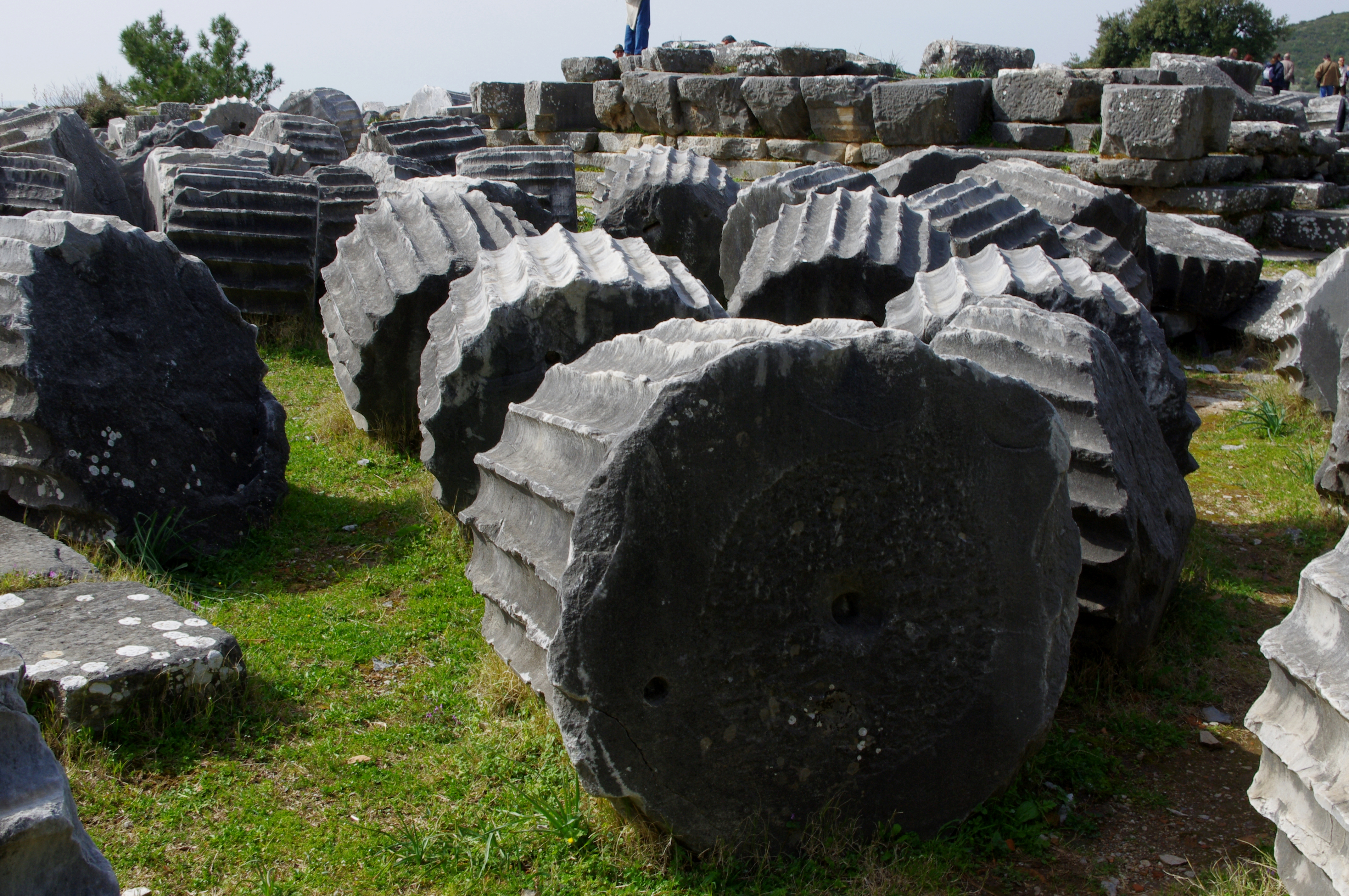 Fallen pieces of shafts of columns in the Temple of Athena at Priene: Only a four of the dozens of columns that once surrounded Pytheos' magnificent temple of Athena at Priene have been re-erected. Most of the column bits lie where they fell over a thousand years ago as a result of huge earthquakes.